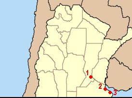 Lituanians, Argentina